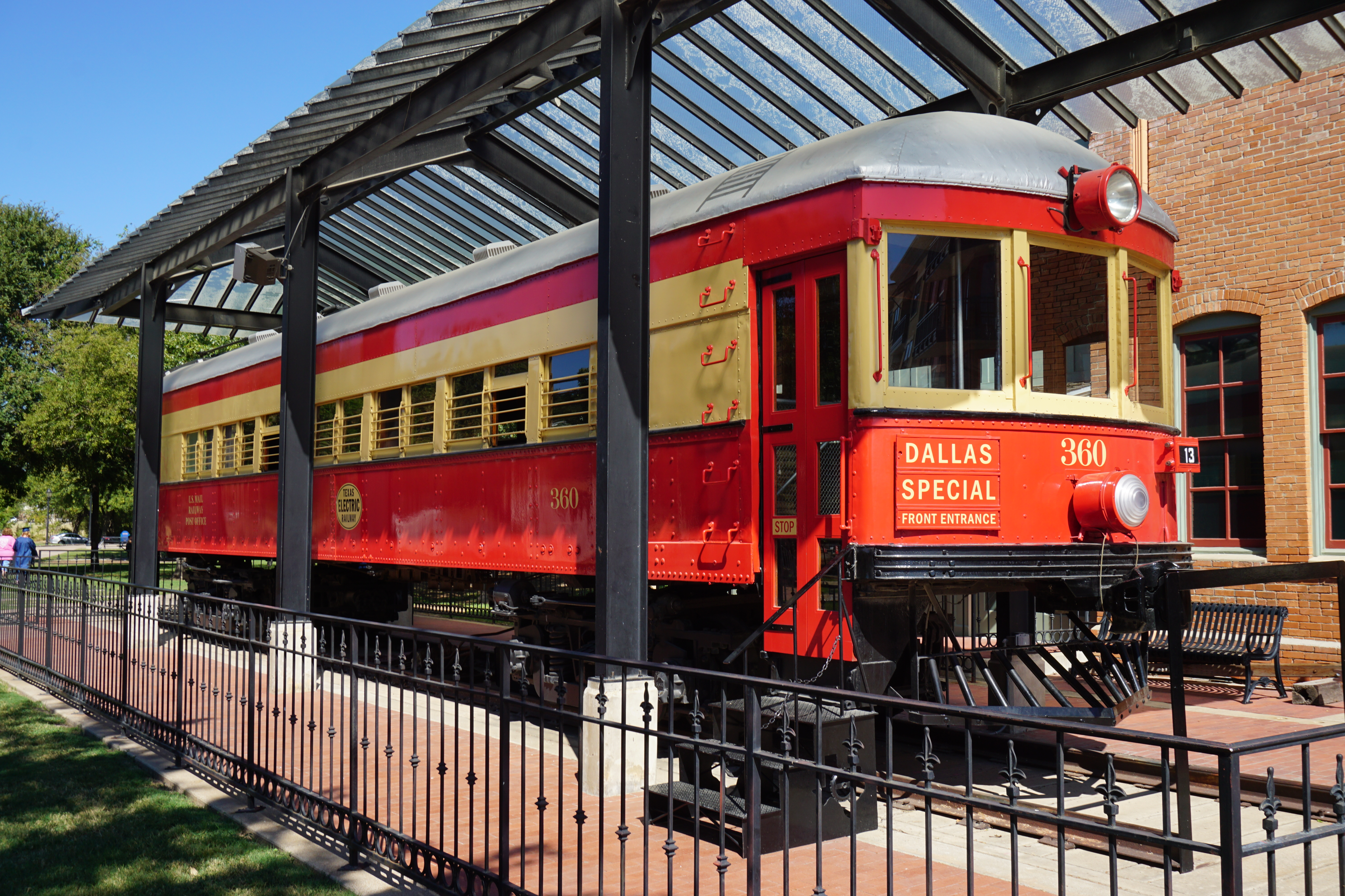 Texas Electric Railway Car 360 at the Interurban Railway Museum in Plano, Texas (United States).